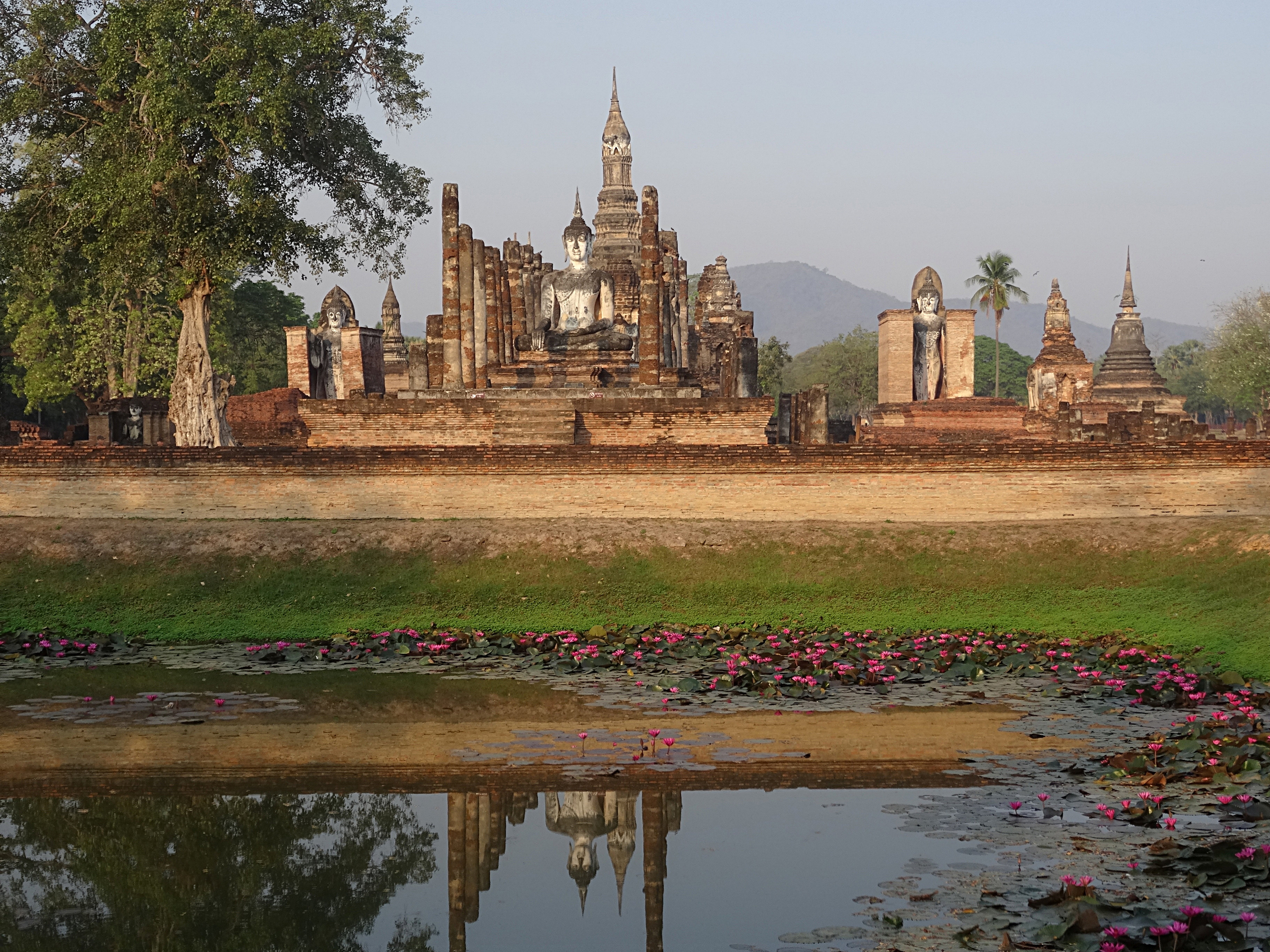 Central sanctuary Wat Mahathat of the first capital of the Thai kingdom Siam in the Sukhothai Historical Park